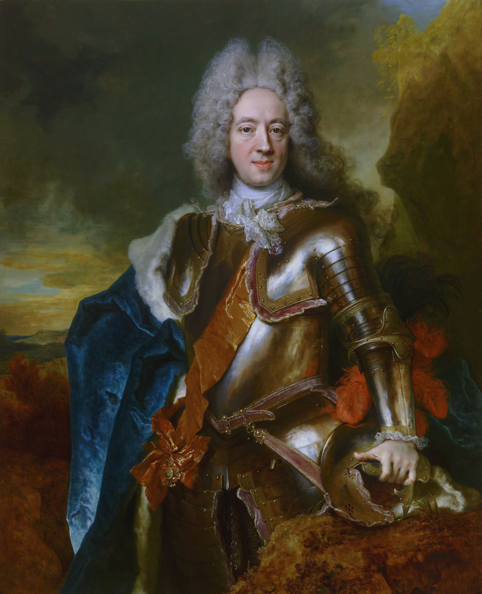 Willem Hyacinth (1666-1743)